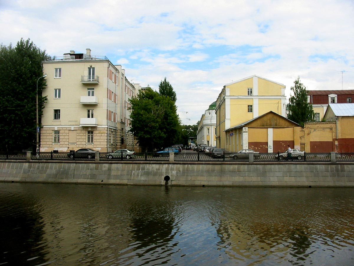 Moscow, Russia. Sadovnicheskaya street, Kommissariatsky alley - view from south. July 2005. Buildings on the right side demolished in 2019.